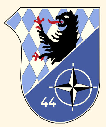 Coat of arms of GAF Fighter Bomber Wing 44